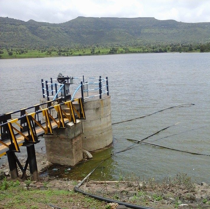 दंडवे धरण